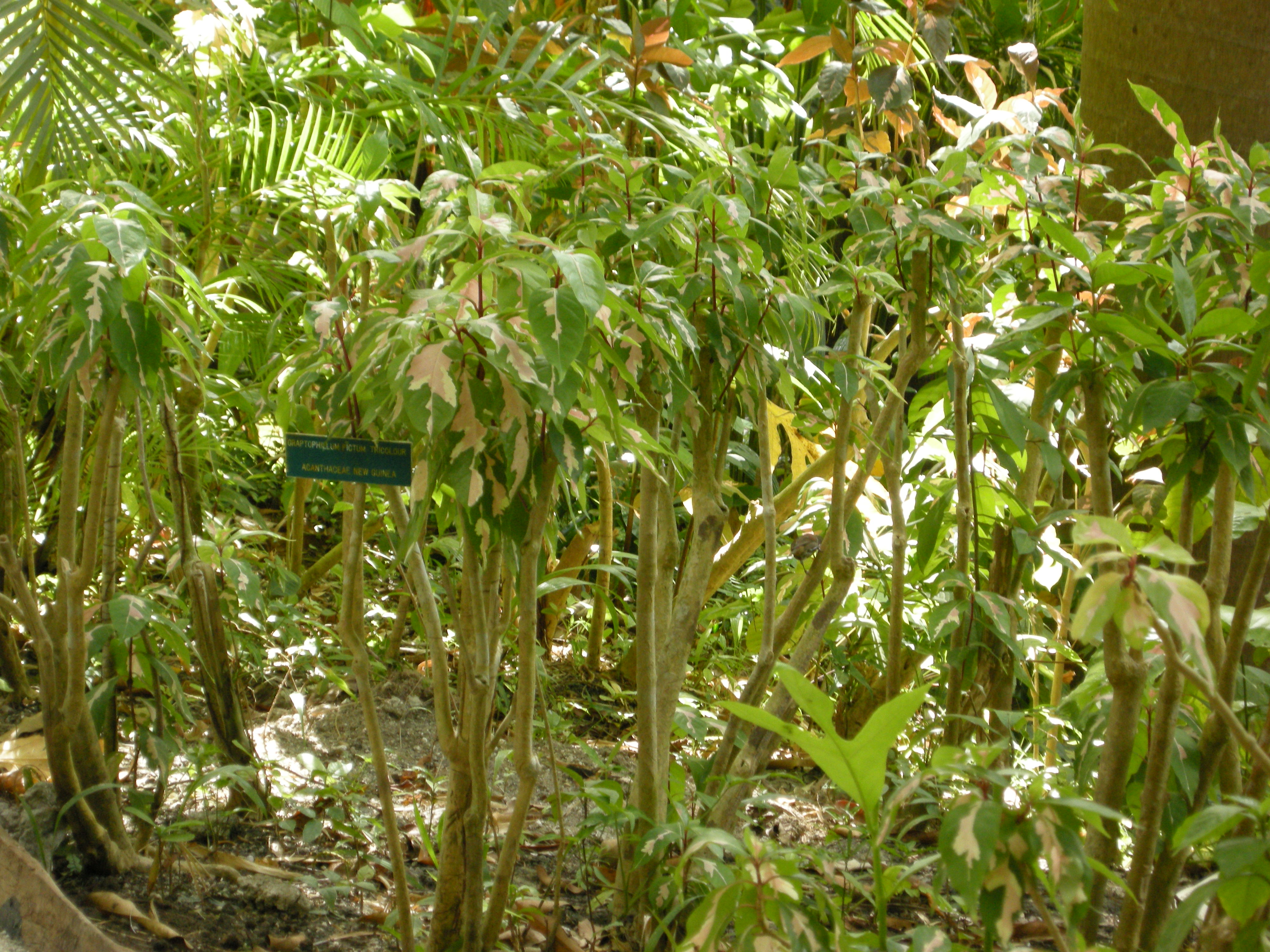 Graptophyllum pictum. Location: Andromeda Botanic Gardens, Parish of St Joseph, Barbados.